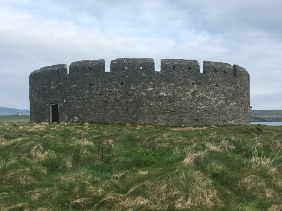 Derby Fort, Fort Island, Isle of Man